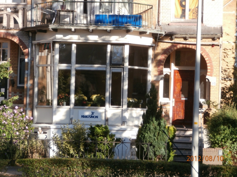 Front of building, Narconon Netherlands.